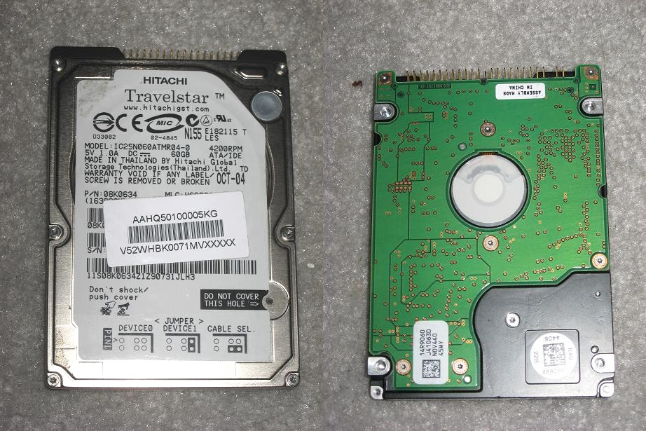 Hitachi Travelstar 60GB IDE laptop hard drive IC25N060ATMR04-0.